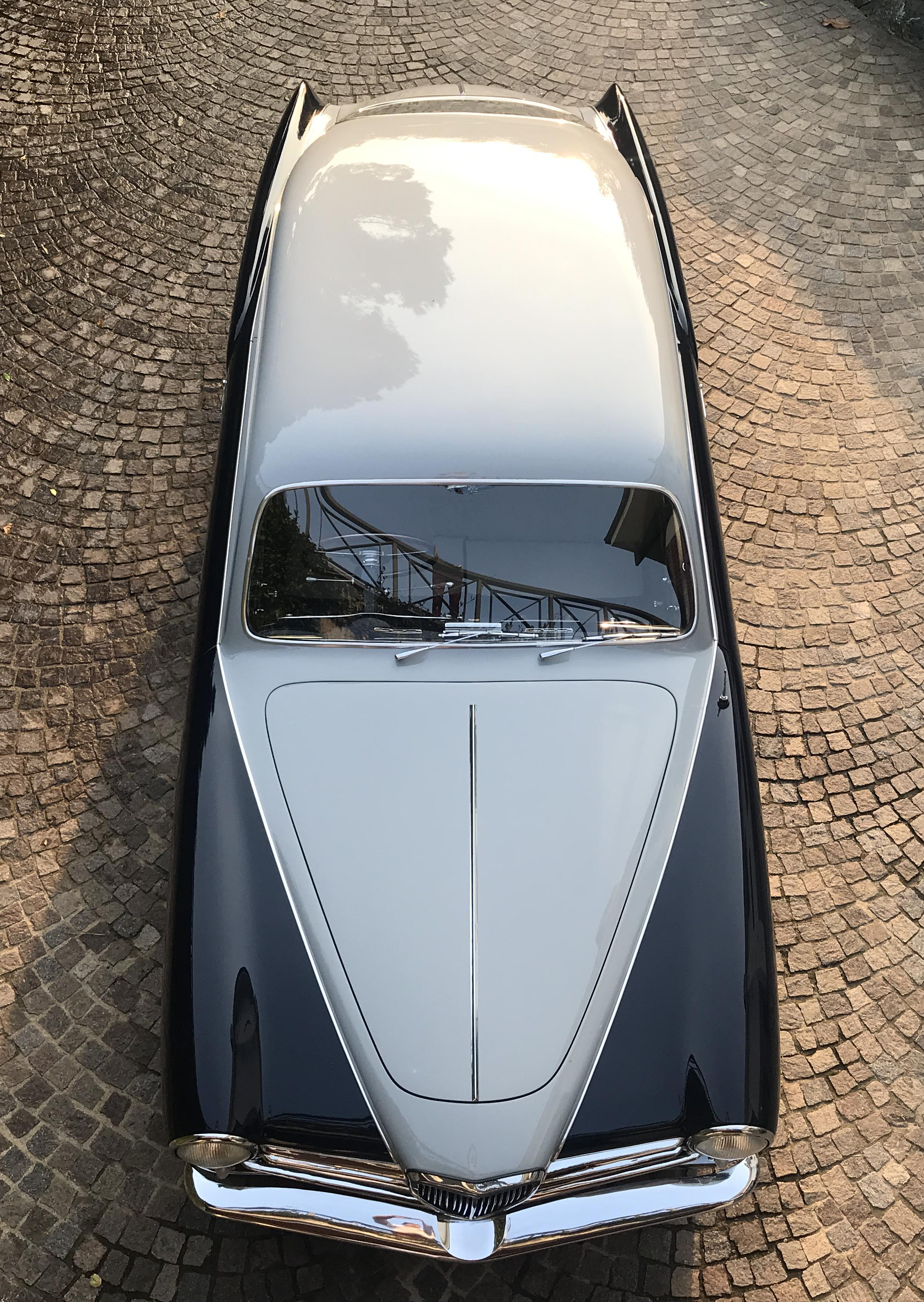 Lancia Aurelia B53 Balbo 1952, Franco Scaglione design, One of the first cars designed by Franco Scaglione. The only Lancia designed by Scaglione